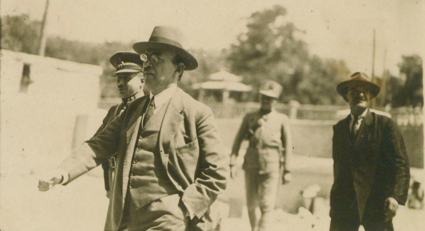 Former Finance Minister Djavid Bey (1926)